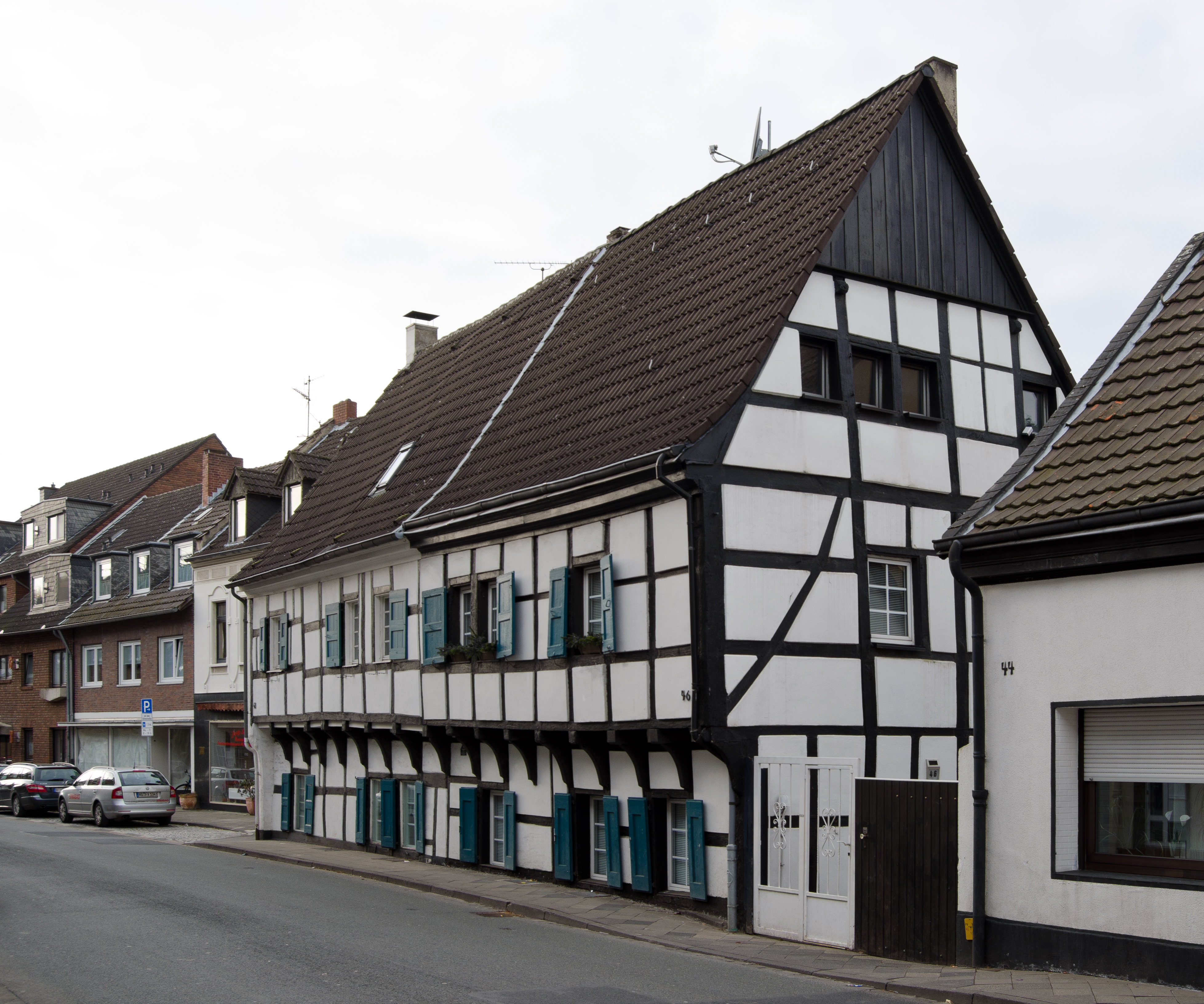 Düsseldorf (North Rhine-Westphalia, Germany) – district Urdenbach – old courthouse This image shows a heritage building in Germany, located in the North Rhine-Westphalian city Düsseldorf (no. 917). This photograph was taken with a Nikon D7000